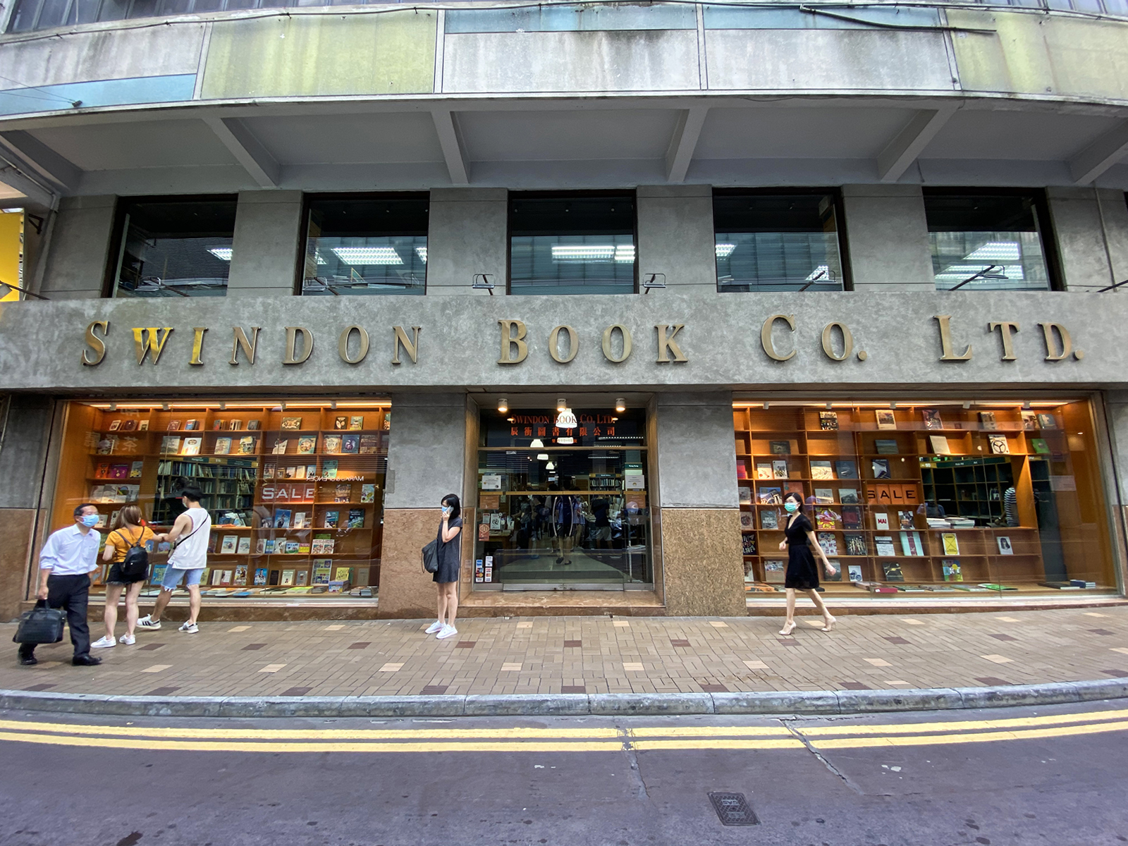 Swindon Book Company 辰衝書店